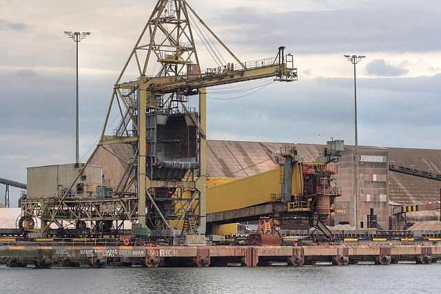 Potash Terminal, Teesport Operated by Cleveland Potash.